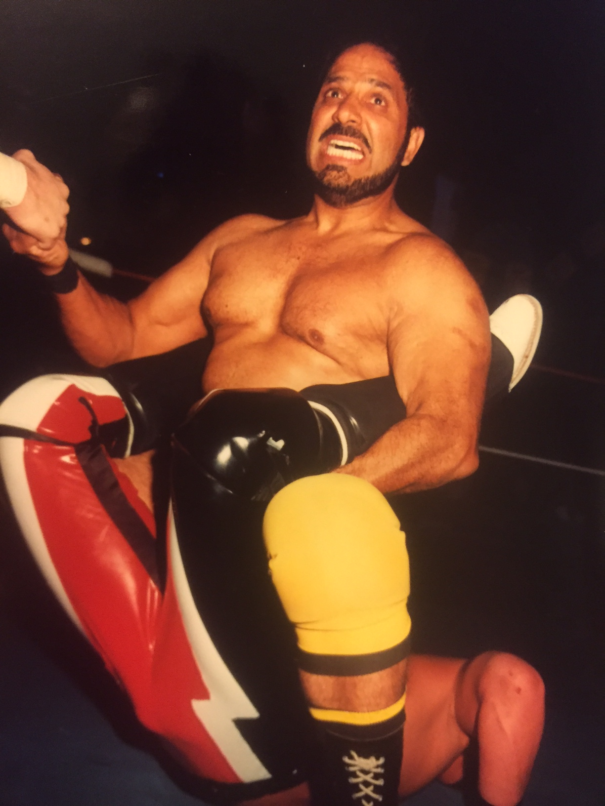 Professional Wrestler Gama Singh in action in the 1990s